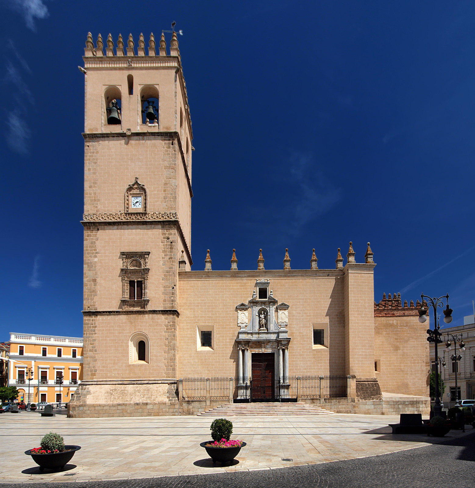 Facade of the Badajoz Cathedral. Badajoz Cathedral Native nameCatedral de San Juan Bautista de BadajozLocationBadajoz, (Spain)Coordinates38° 52′ 42.4″ N, 6° 58′ 09.89″ W Established13th-centuryWeb page control : Q2942592 VIAF: 167591386 LCCN: nr89009181 BIC: RI-51-0000394 BNE: XX94281 WorldCat institution QS:P195,Q2942592